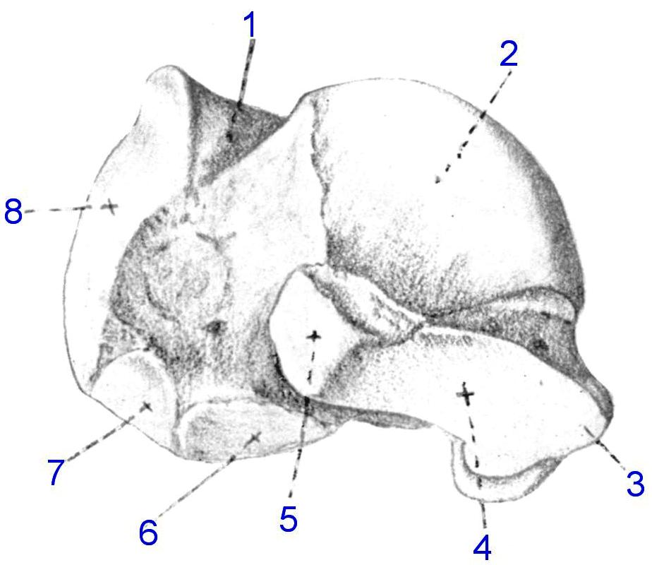 Accessory anterolateral facet of the talus (Facies externa accessoria corporis tali)